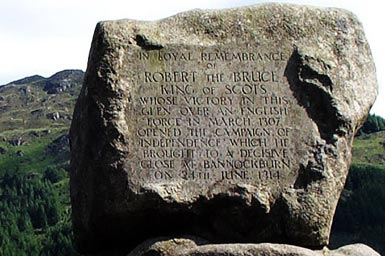 Detail of inscription on Bruce's Stone Glentrool